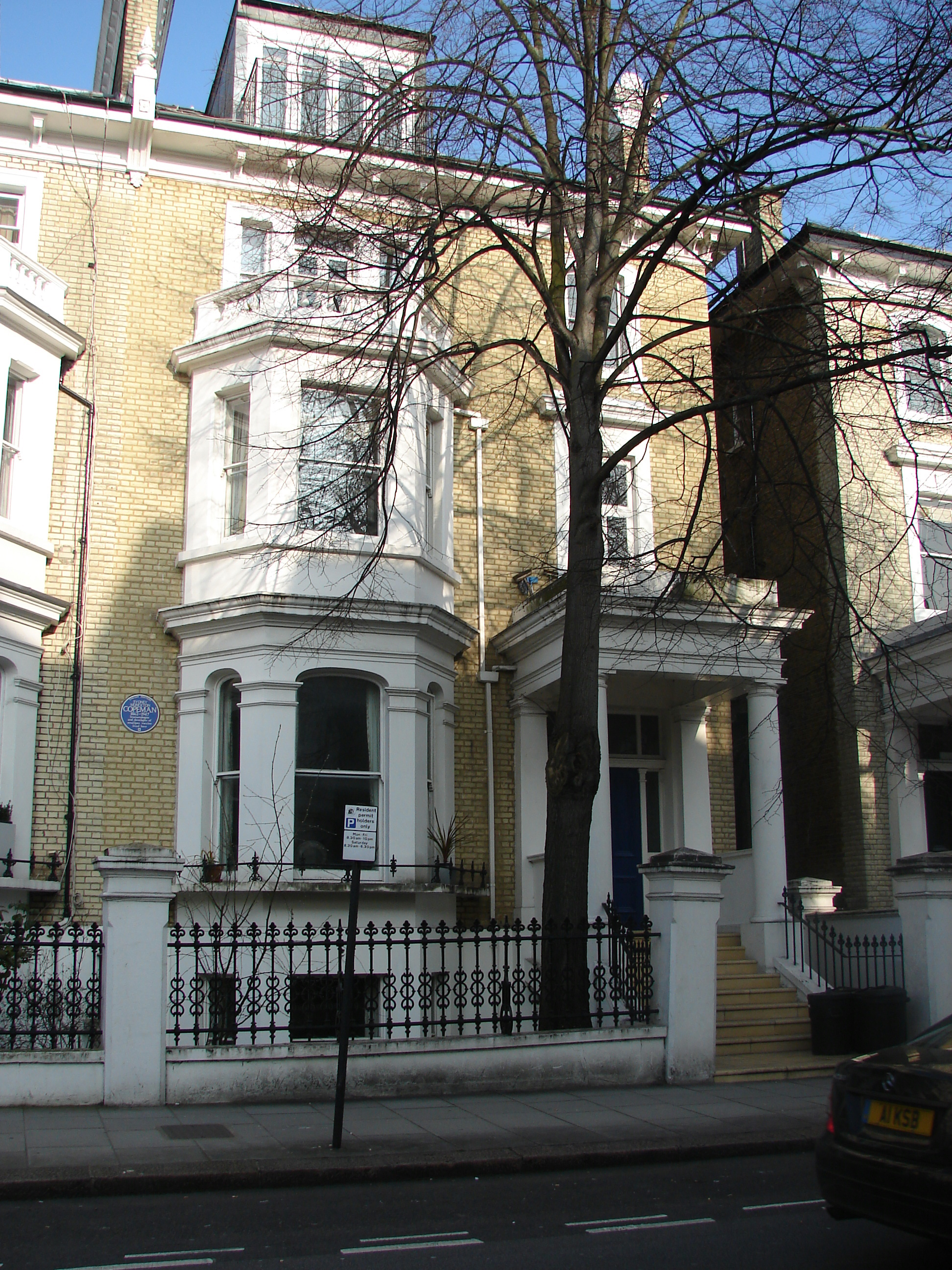 57 Redcliffe Gardens, Kensington, London SW10 9HD with plaque to Sydney Monckton Copeman